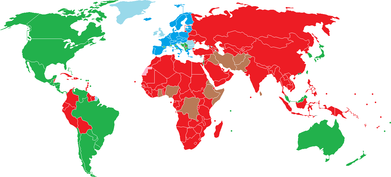 European Union visa lists. EU member states Special visa-free provisions (Schengen Agreement, OCT or other) Visa-free access to the Schengen states for 90 days Visa required to enter the Schengen states Visa required for transit via Schengen states Visa-status unknown Based on lists from here [1]